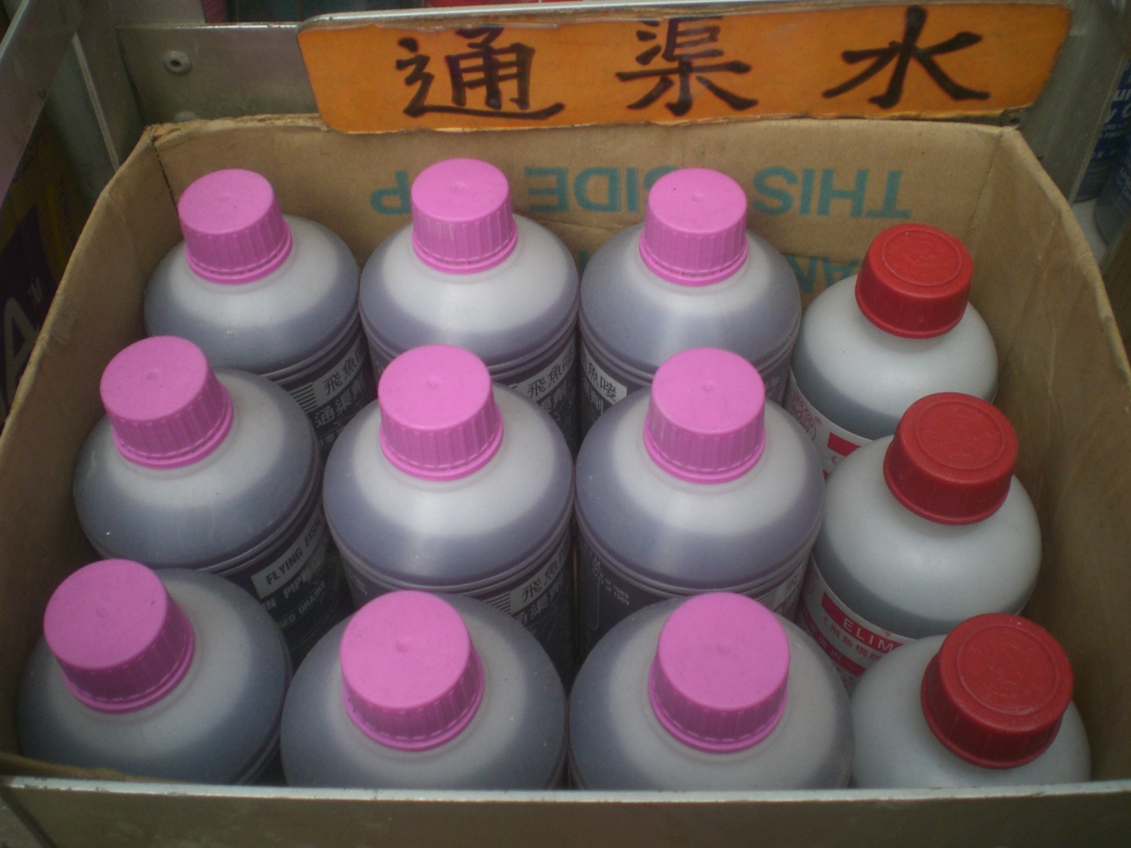 通渠水